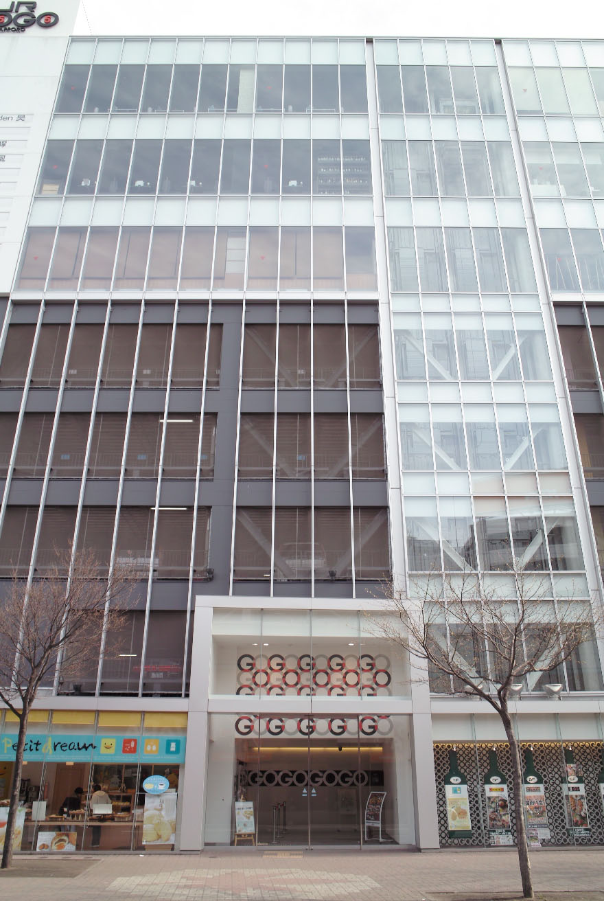 JR55 SAPPORO building, Hokkaido, Japan